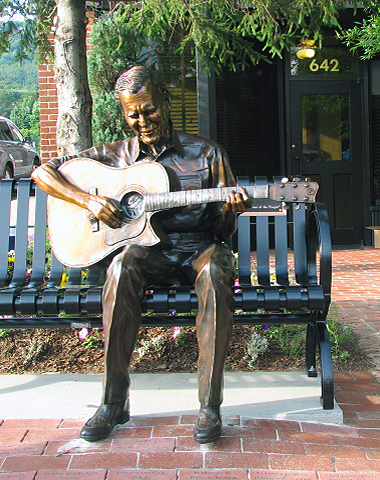 Sculpture of Doc Watson at the corner King and Depot Streets, Boone, Watauga County, North Carolina. Unveiled on June 24, 2011. The plaque on the bench reads "Just one of the People". Sculpture created by Alex Hallmark.